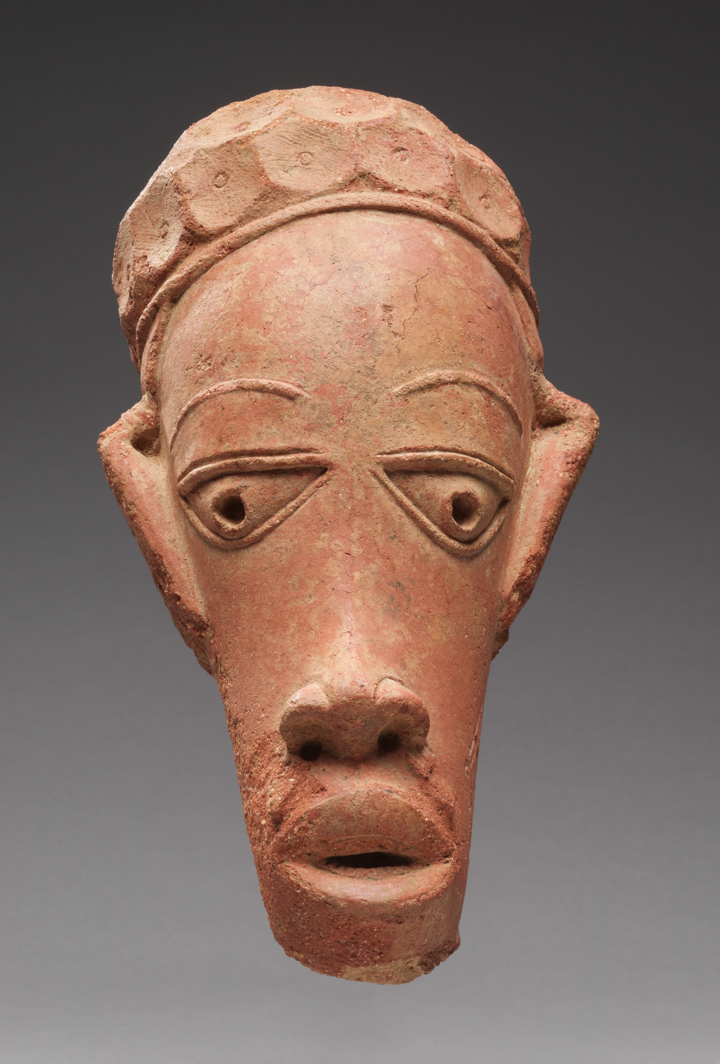 Although probably a fragment of a nearly life-size male seated figure, this head is remarkably well preserved. The Nok terracottas may have been part of a shrine or temple or were placed on a tomb. The identities of the portrayed figures remain unknown, but the adornments and elaborate hairstyles and headdresses seem to indicate that they represent notables or leaders.